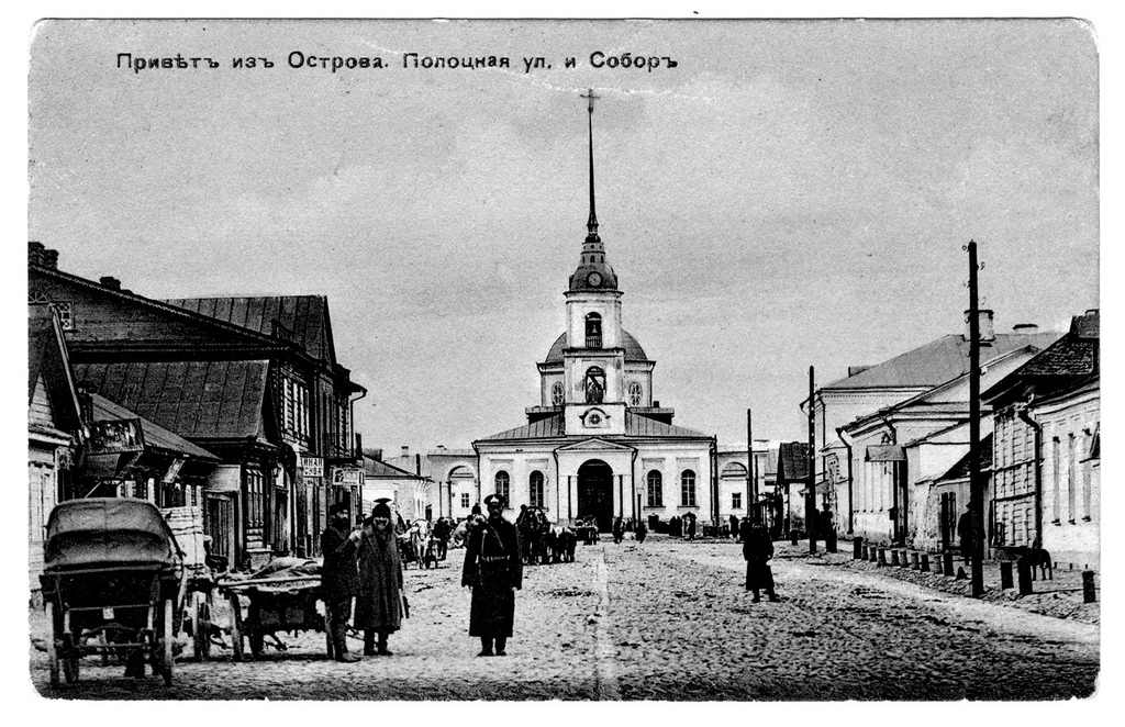 Polotskaya Street and Cathedral in Ostrov